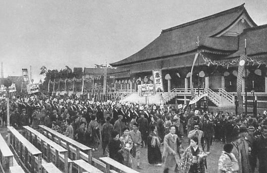 Place for 2600th Anniversary Celebration of the Japanese Empire